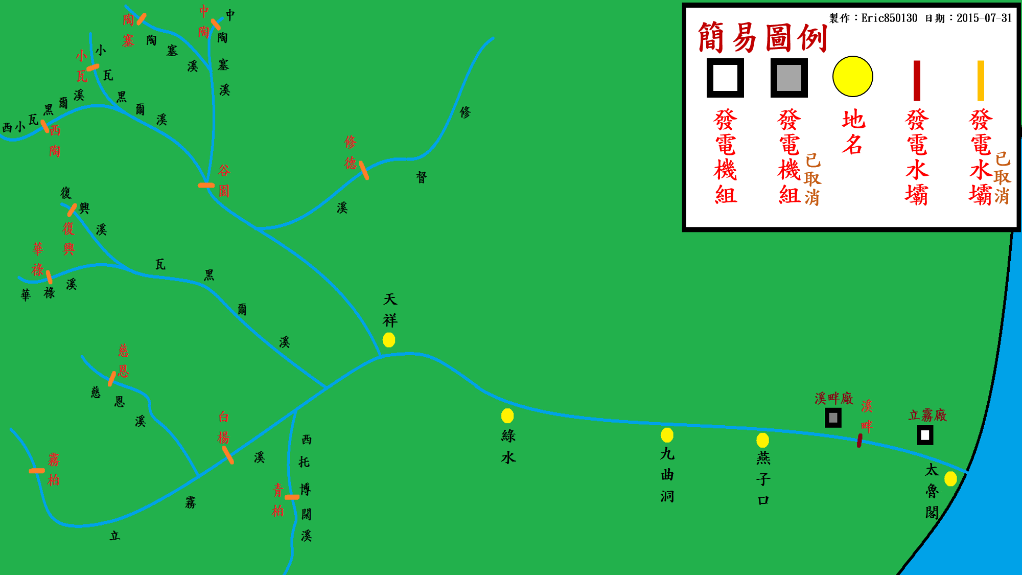 1970s Li-Wu Hydroelectric Development Projects Dam Location Map